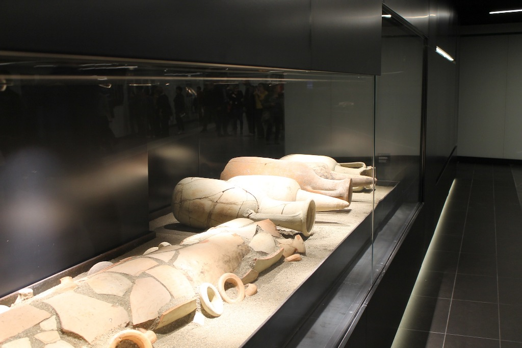 Museum of San Giovanni station of the Line C of the Rome Metro.